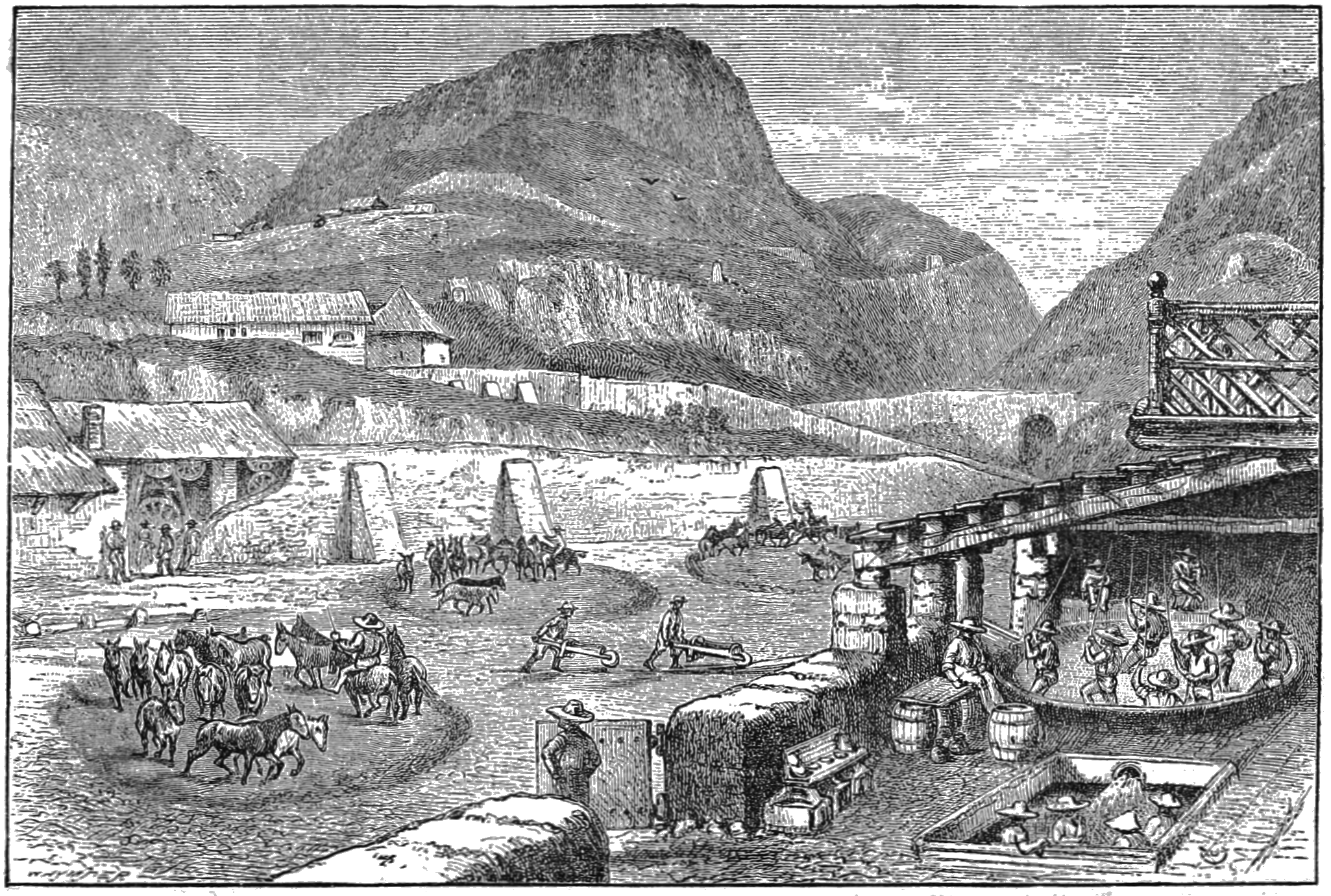 Silver mill in Pachuca